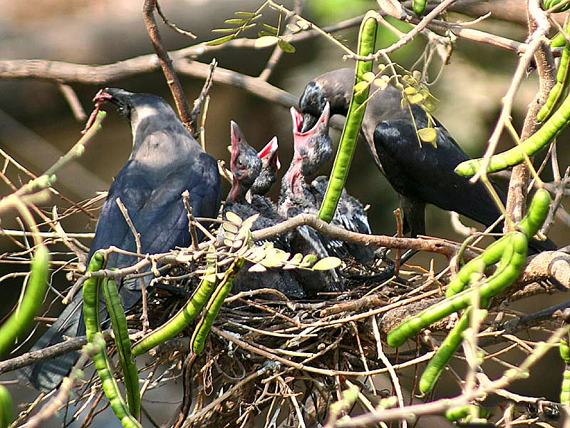 House Crow Corvus splendens in Kolkata, West Bengal, India.